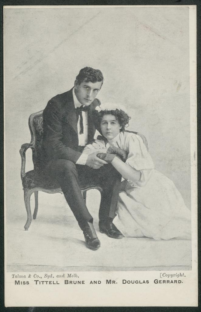 Format: Postcard, photo mechanical print, with Miss Tittell Brune and Mr. Douglas Gerrard. Part Of: Powerhouse Museum Collection General information about the Powerhouse Museum Collection is available at Persistent URL: Acquisition credit line: Gift of Elizabeth Bullard, 1967